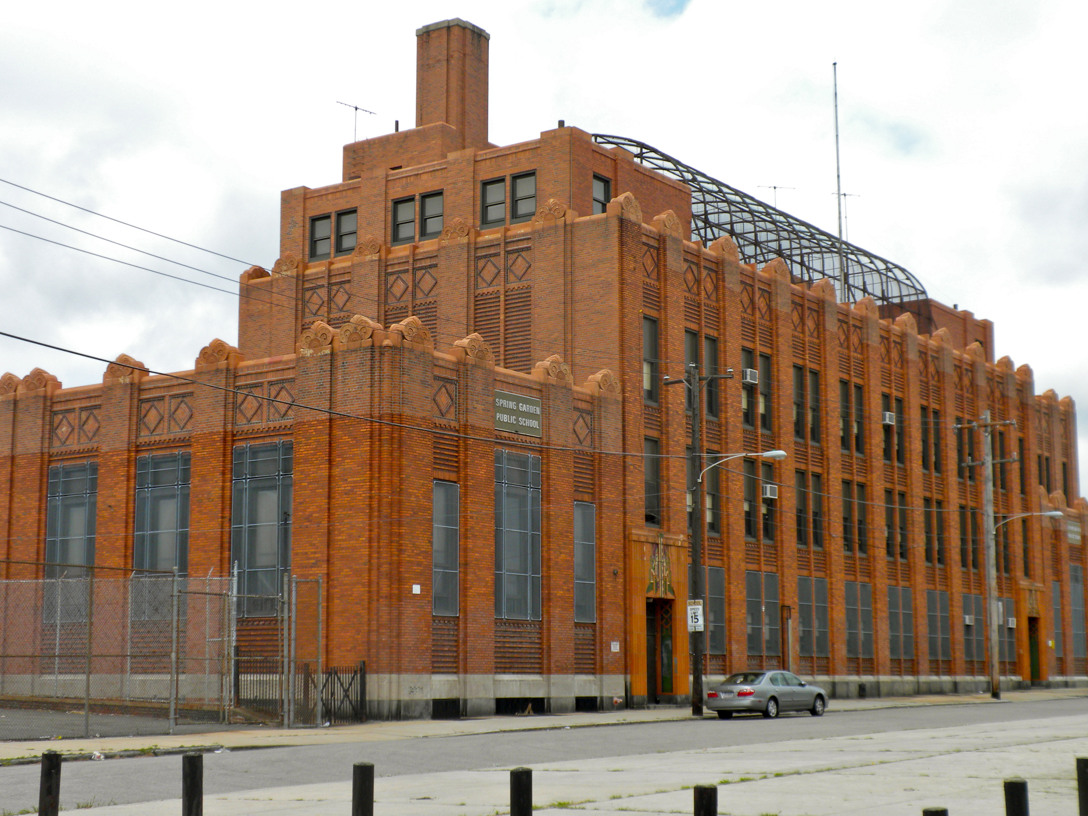 Spring Garden School, listed as Spring Garden School No. 2 on the NRHP since December 4, 1986. At 1146 Melon Street, Philadelphia in the Poplar neighborhood of North Philly. Note that nearby Spring Garden School No. 1, on the NRHP also since December 4, 1986, also on 12th, is also on the NRHP.